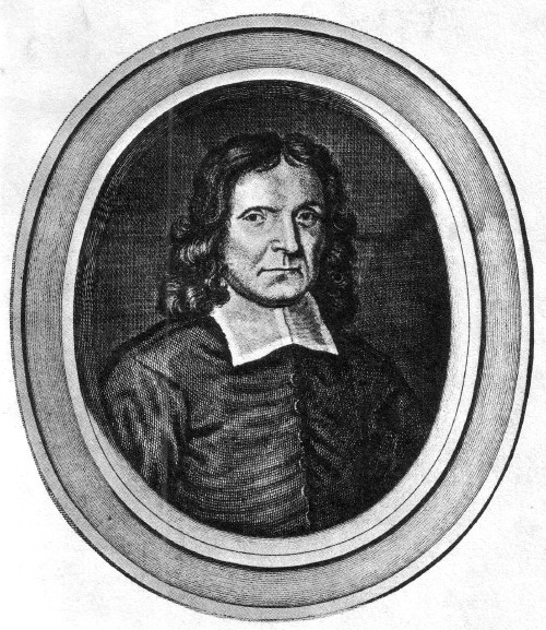 Engraved portrait of Samuel Willard (1640-1707), Puritan minister, artist unknown